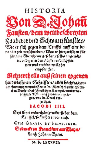 Historia von D. Johan Fausten, Frontispiece of the book published in 1587.